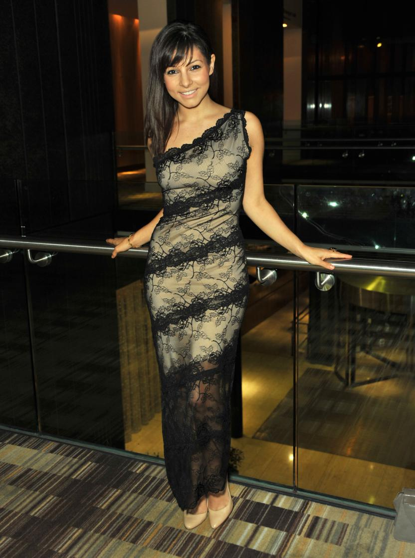 Roxanne Pallett.